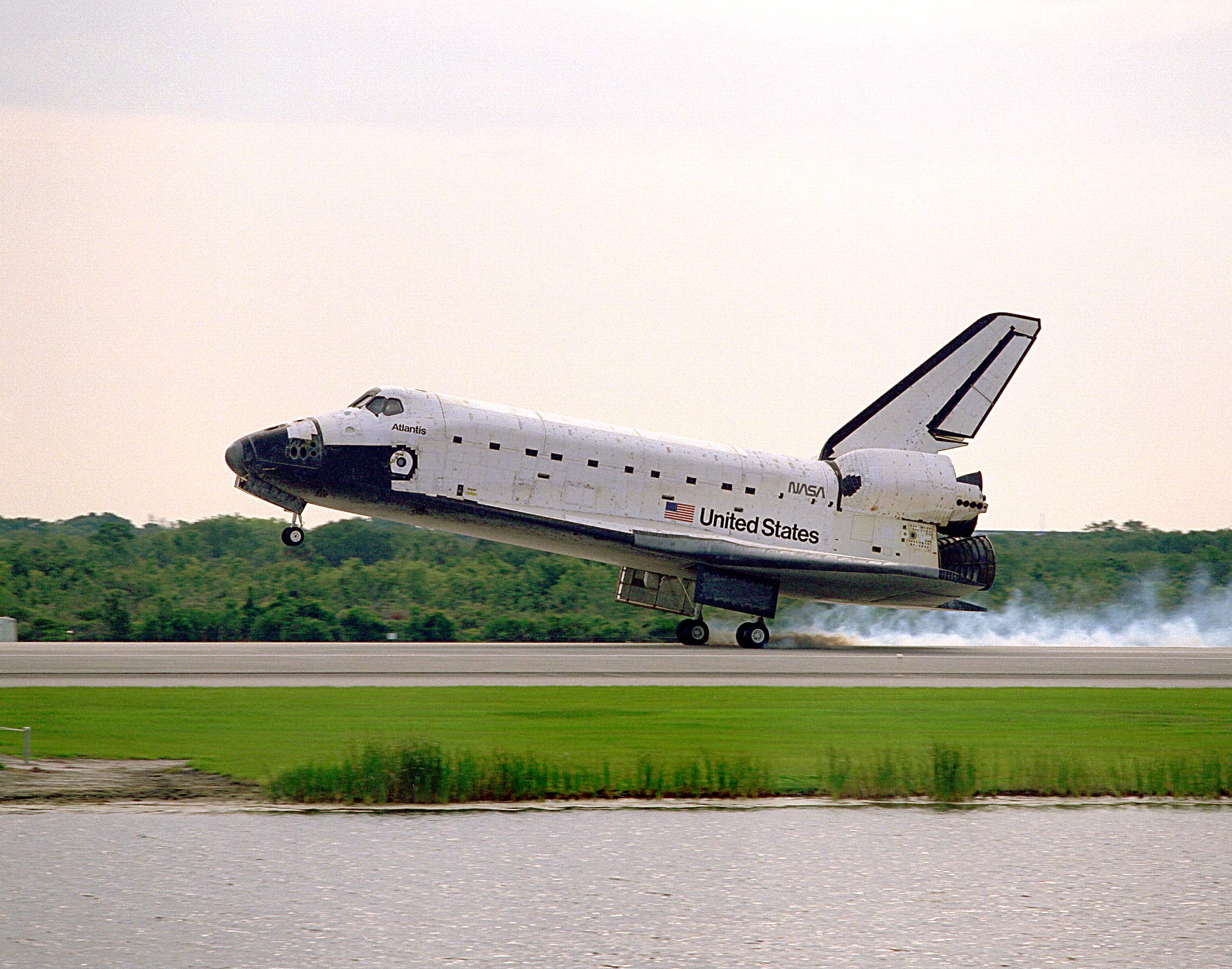 The Space Shuttle orbiter Atlantis touches down on Runway 33 of the KSC Shuttle Landing Facility, bringing to an end the nine-day STS-84 mission. Main gear touchdown was at 9:27:44 EDT on May 24, 1997. The first landing opportunity was waved off because of low cloud cover. It was the 37th landing at KSC since the Shuttle program began in 1981, and the eighth consecutive landing at KSC. STS-84 was the sixth of nine planned dockings of the Space Shuttle with the Russian Space Station Mir. Atlantis was docked with the Mir for five days. STS- 84 Mission Specialist C. Michael Foale replaced astronaut and Mir 23 crew member Jerry M. Linenger, who has been on the Russian space station since Jan. 15. Linenger returned to Earth on Atlantis with the rest of the STS-84 crew, Mission Commander Charles J. Precourt, Pilot Eileen Marie Collins, and Mission Specialists Carlos I. Noriega, Edward Tsang Lu, Elena V. Kondakova of the Russian Space Agency and Jean-Francois Clervoy of the European Space Agency. Foale is scheduled to remain on the Mir for approximately four months, until he is replaced by STS-86 crew member Wendy B. Lawrence in September. Besides the docking and crew exchange, STS-84 included the transfer of more than 7,300 pounds of water, logistics and science experiments and hardware to and from the Mir. Scientific experiments conducted during the STS-84 mission, and scheduled for Foale's stay on the Mir, are in the fields of advanced technology, Earth sciences, fundamental biology, human life sciences, International Space Station risk mitigation, microgravity sciences and space sciences.